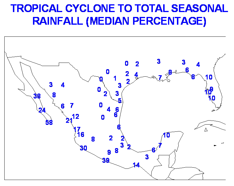 Art Douglas Climate Prediction Center Camp Springs, MD